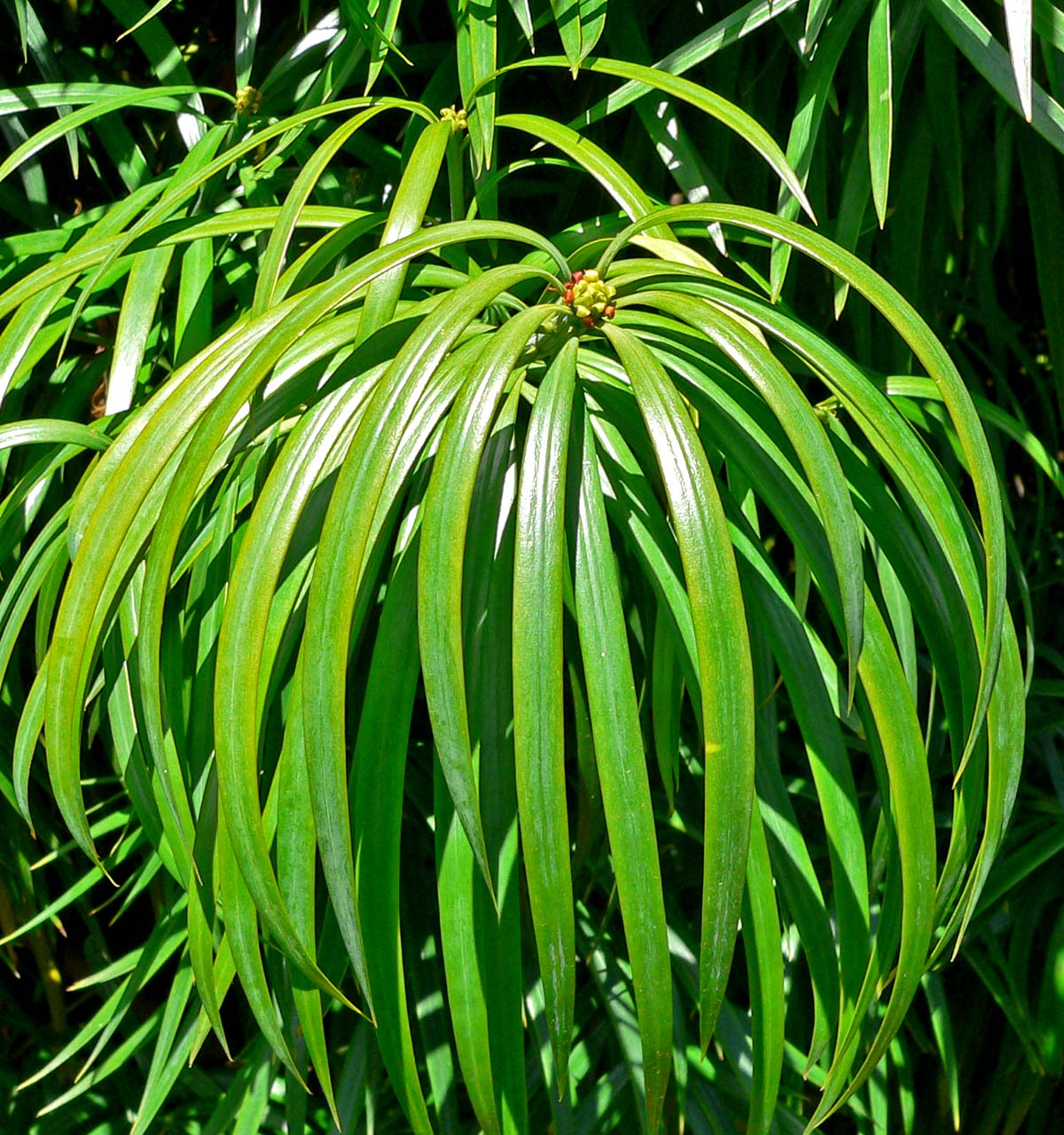 Photo of Podocarpus henkelii at the San Francisco Botanical Garden